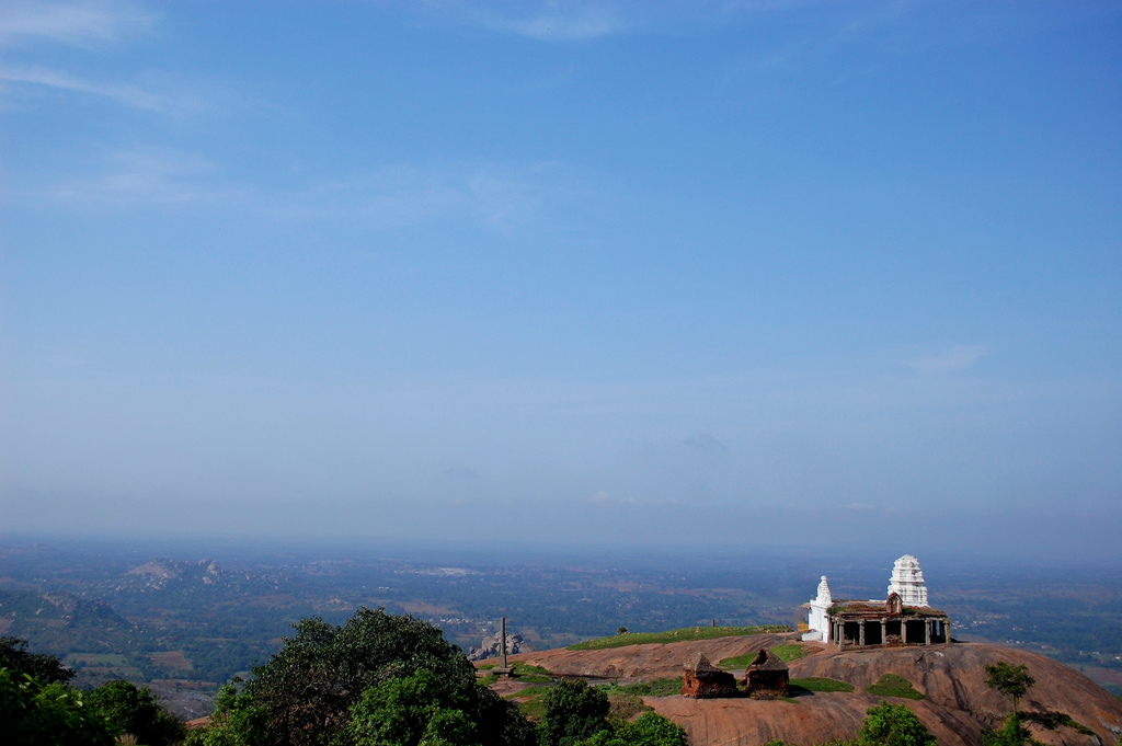 Landscape view from the Huthridurga hillock